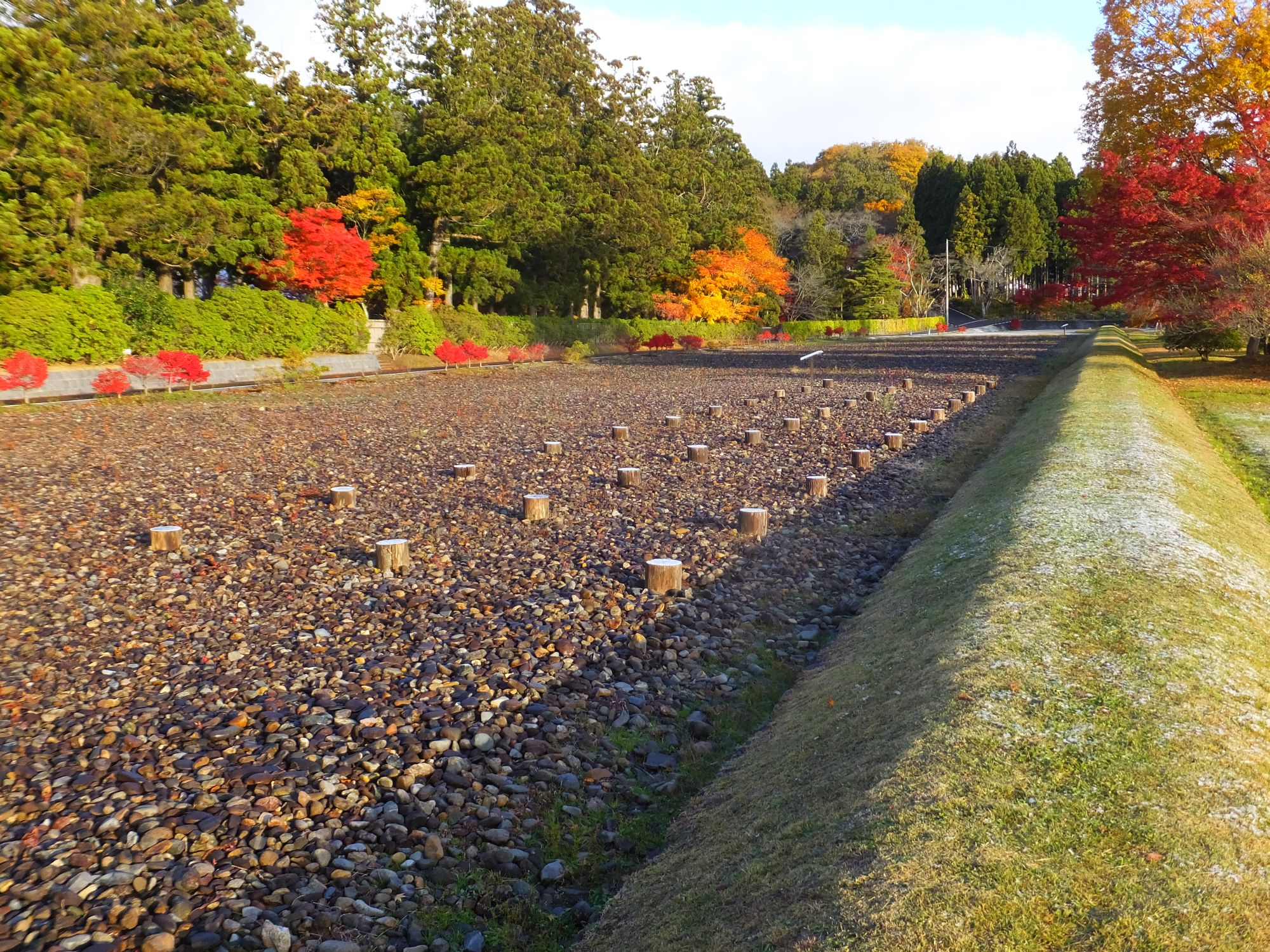 The ruins of Kanjizaiō-in temple in Hiraizumi, Iwate Prefecture